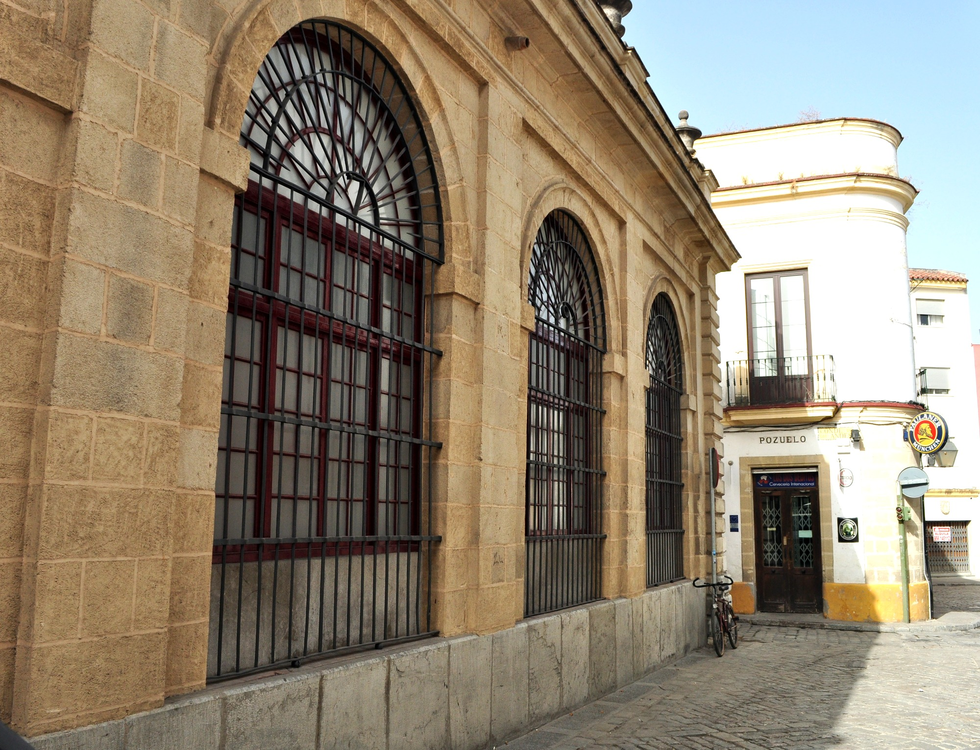 Old Fish Market Building on Latorre St. Cultural Centre. Jerez de la Frontera